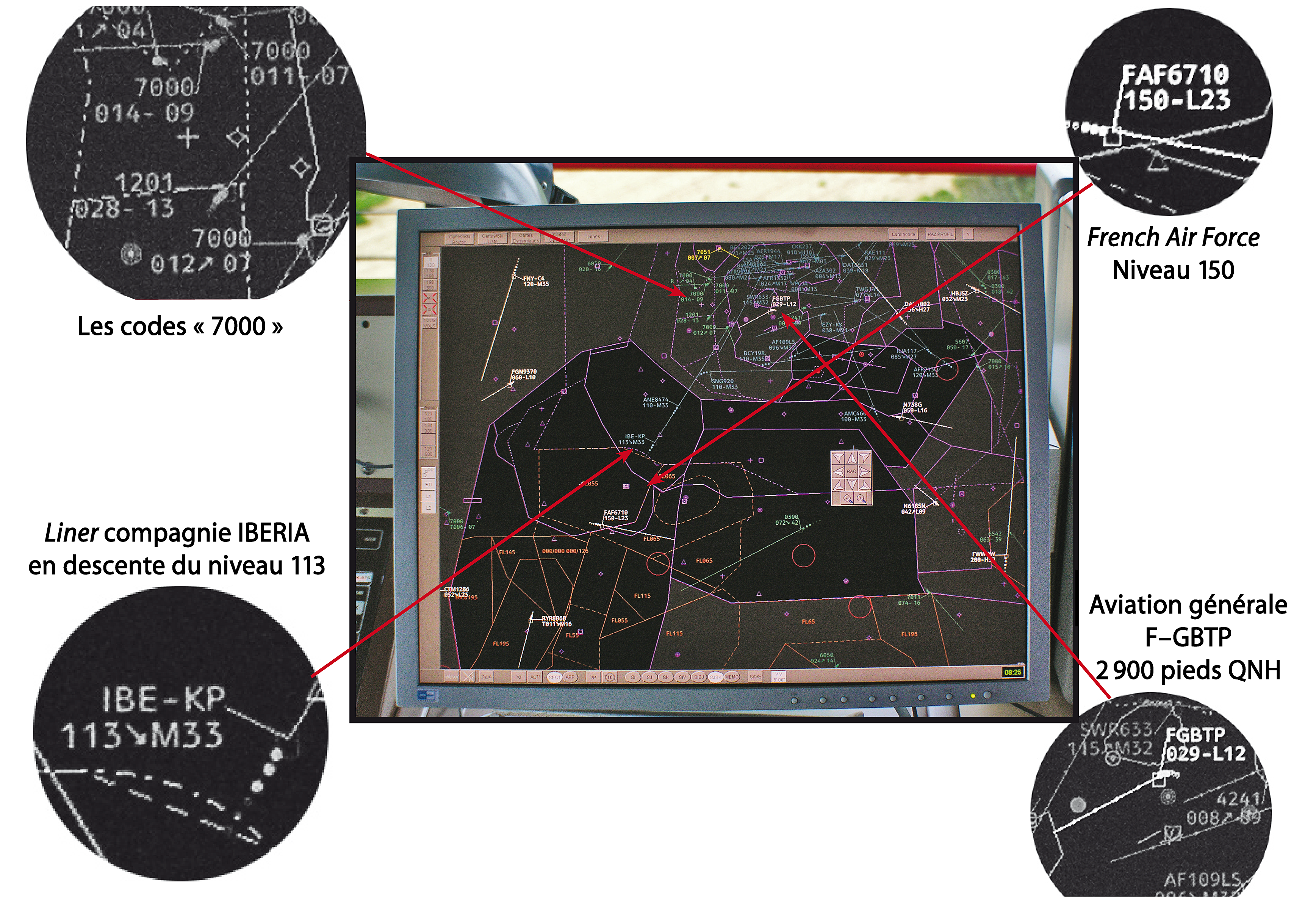 Air control radar display with legends to explain the "squawk" codes.